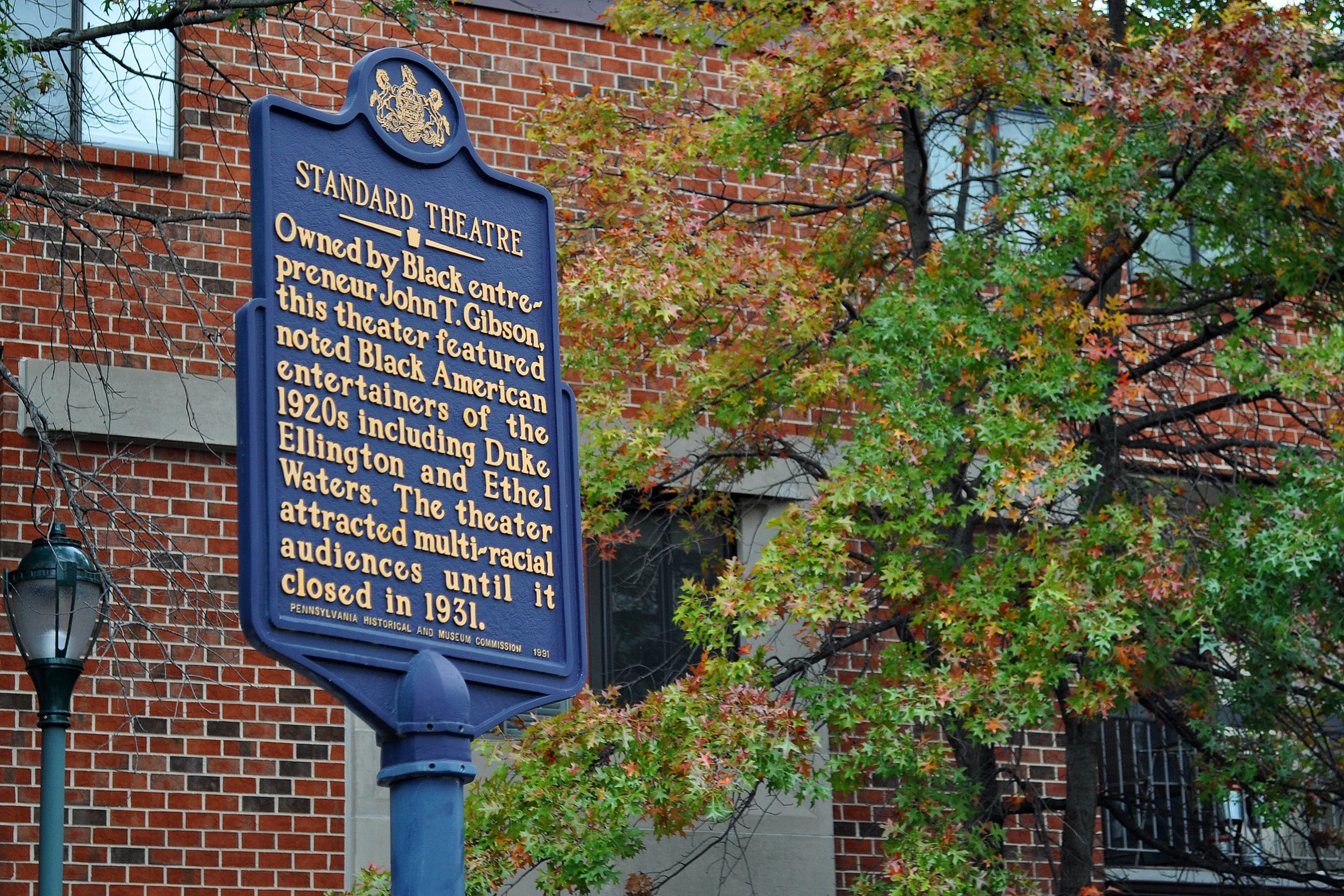 Standard Theatre. Owned by Black entrepreneur John T. Gibson, this theater featured noted Black American entertainers of the 1920s including Duke Ellington and Ethel Waters. The theater attracted multi-racial audiences until it closed in 1931. (Historical Marker at 1126 South St Philadelphia PA 19147 - PA Historical & Museum Commission 1991)